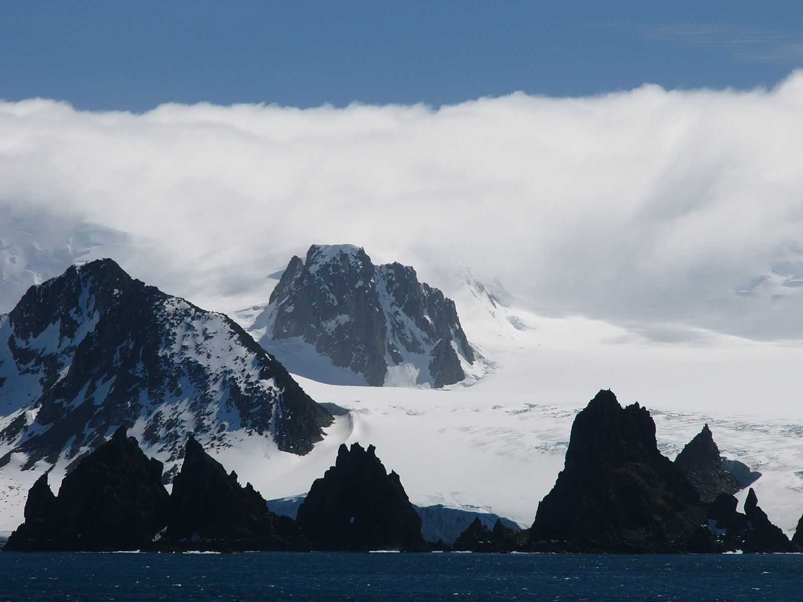 Greenwich Island, South Shetland Islands, Antarctica. Picture taken from Bransfield Strait with Fort Point in the foreground, and St. Kiprian Peak and Lyutitsa Nunatak in the background.